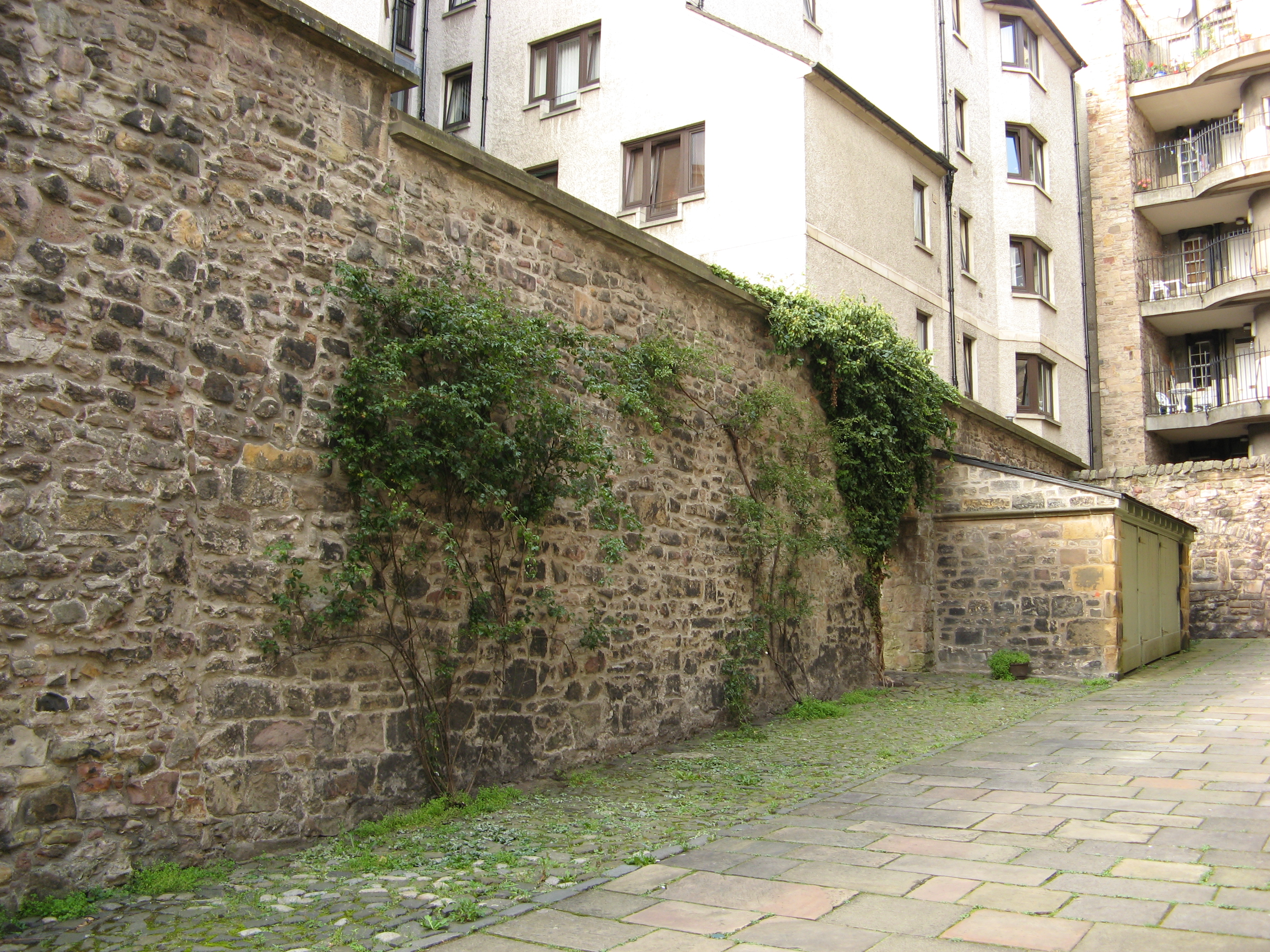 Section of the 15th-century King's Wall, Tweeddale Court on the south side of the Royal Mile.